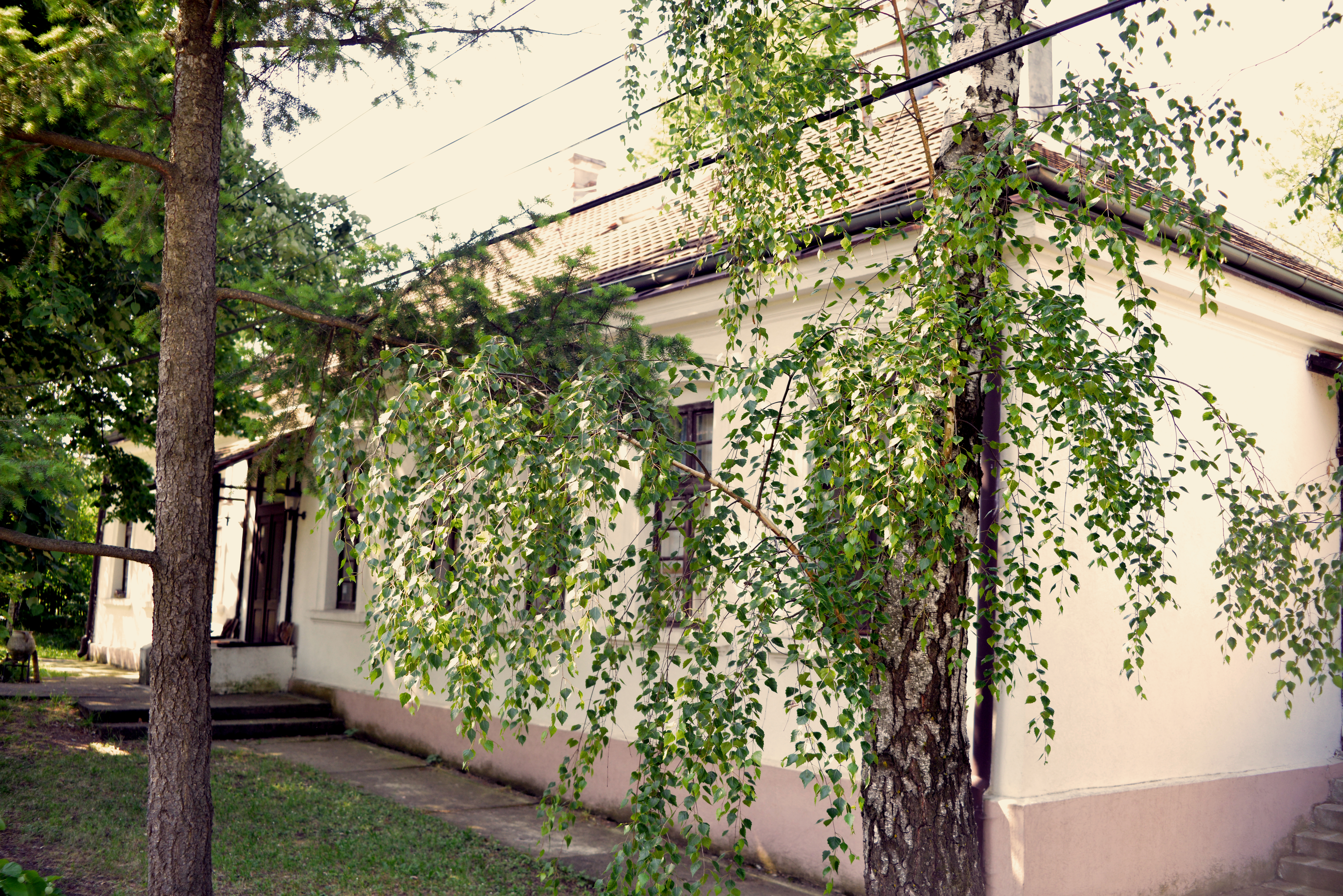 School building in Vranić, a cultural monument